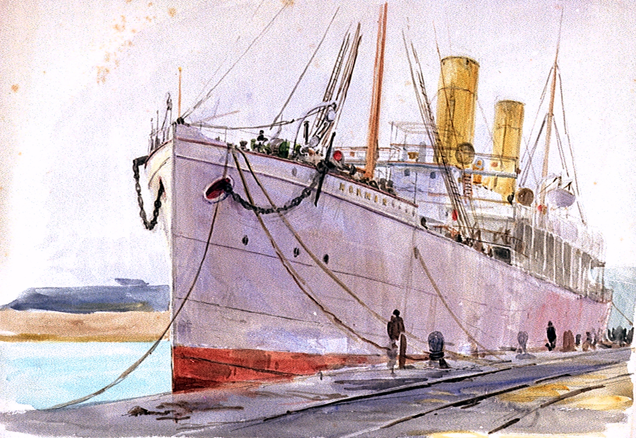 Union Line Norman 1895 Medium includes graphite.